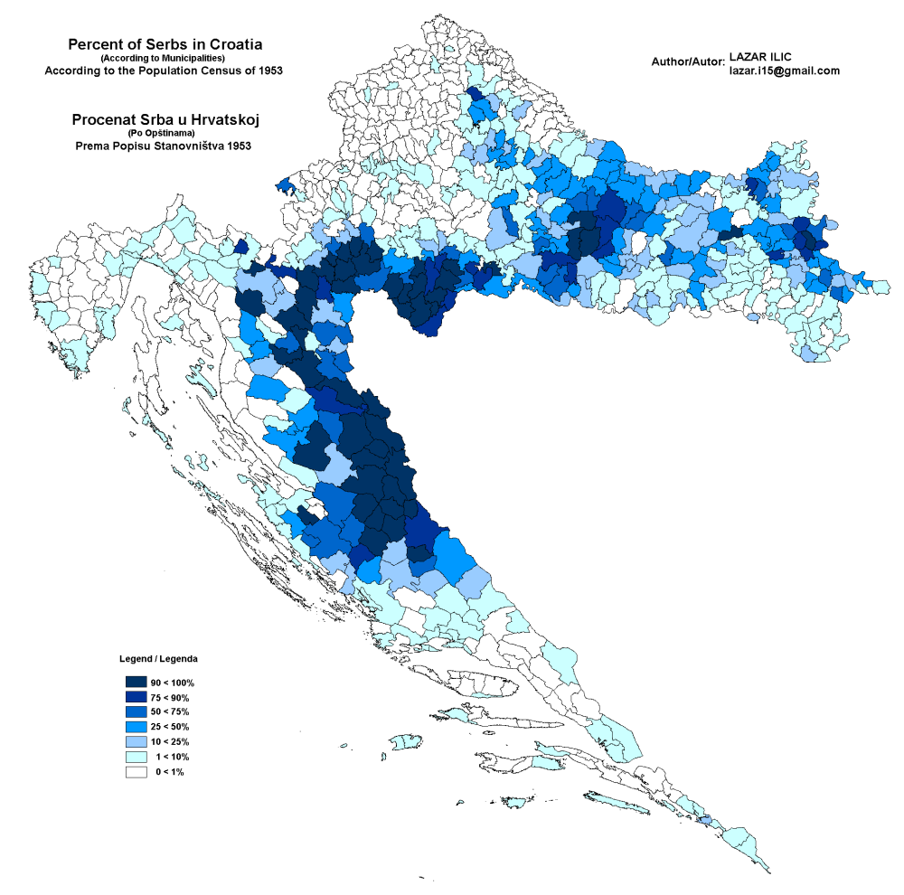 This is an ethnic map of Croatia which shows the percent of Serbs in each municipality. It is according to the 1953 population census.